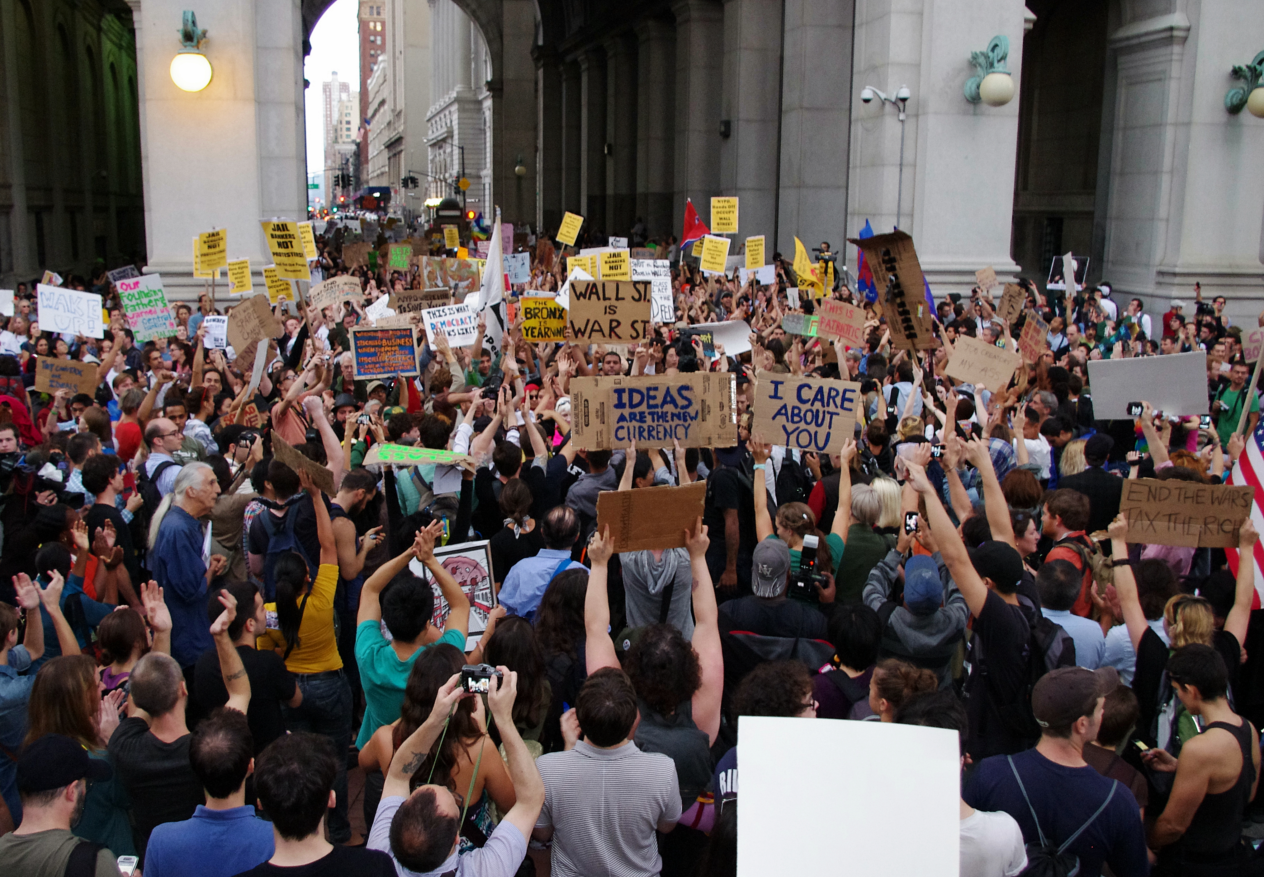 Friday, Day 14 of Occupy Wall Street - photos from the camp in Zuccotti Park and the march against police brutality, walking to One Police Plaza, headquarters of the NYPD.